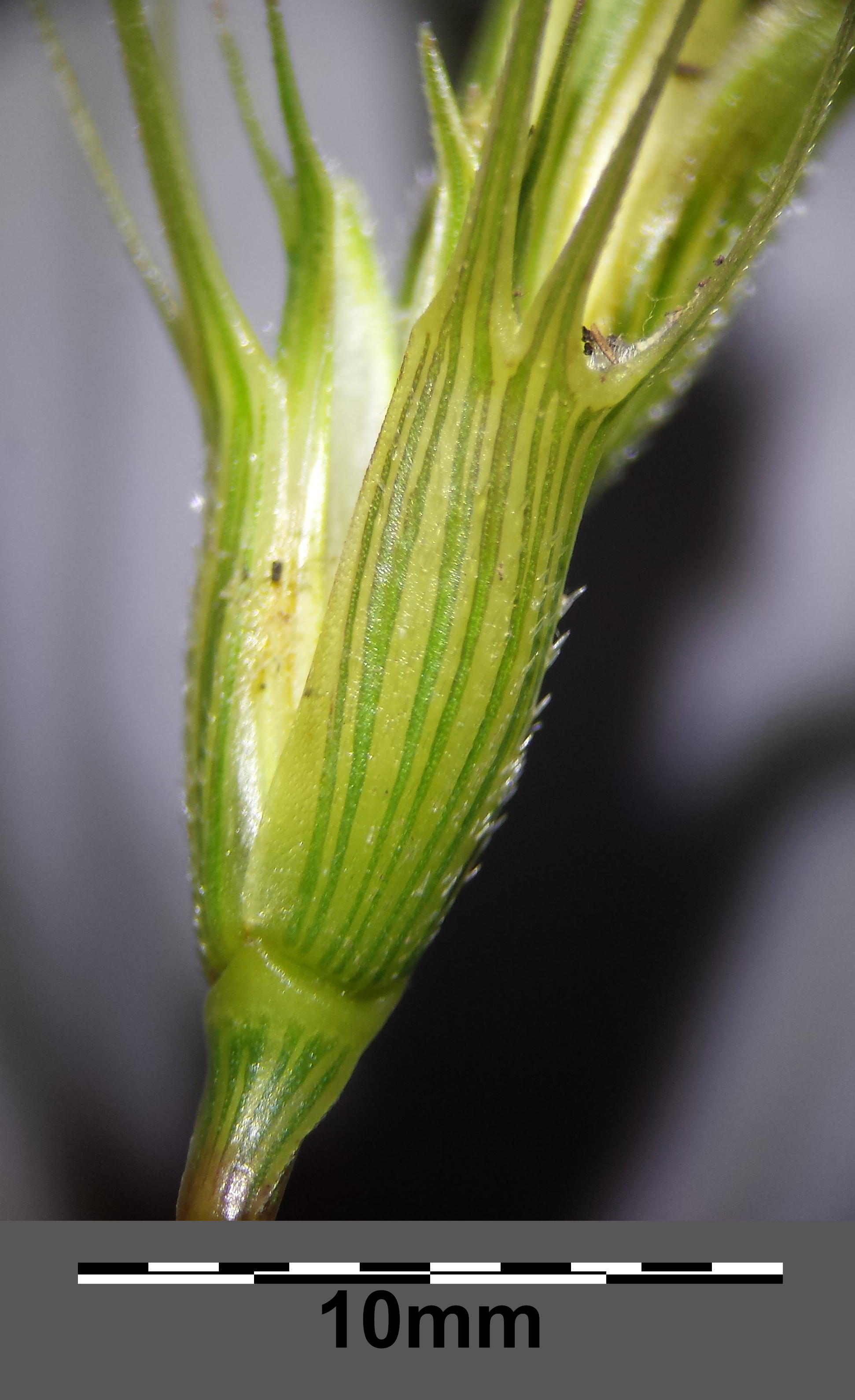 Spikelet Taxonym: Aegilops triuncialis ss Rottensteiner: Exkursionsflora für Istrien ISBN 978-3-85328-067-6 Location: southweast of Stara Baška, community Punat, Krk, County Primorje-Gorski kotar, Croatia Habitat: rocks nearby seaside